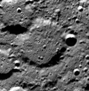 Bi Sheng crater - Clementine image